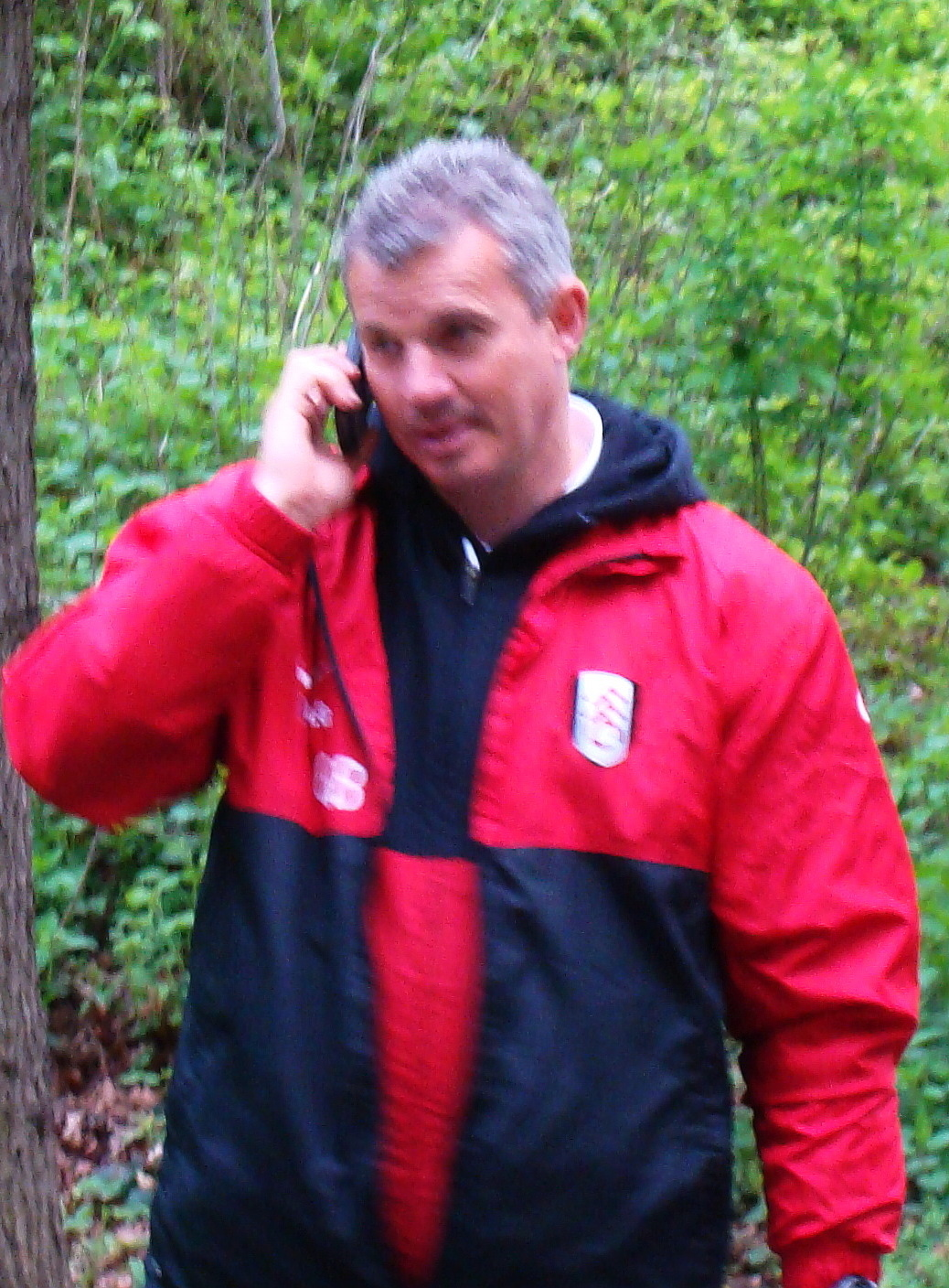 Gary Brazil, Fulham's youth team coach , outside the Hamburg Stadium before the Cup Final